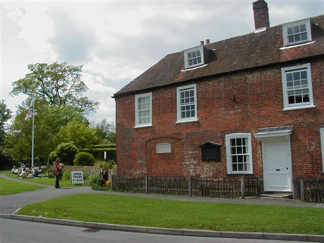 House of Jane Austen, Chawton, Hampshire